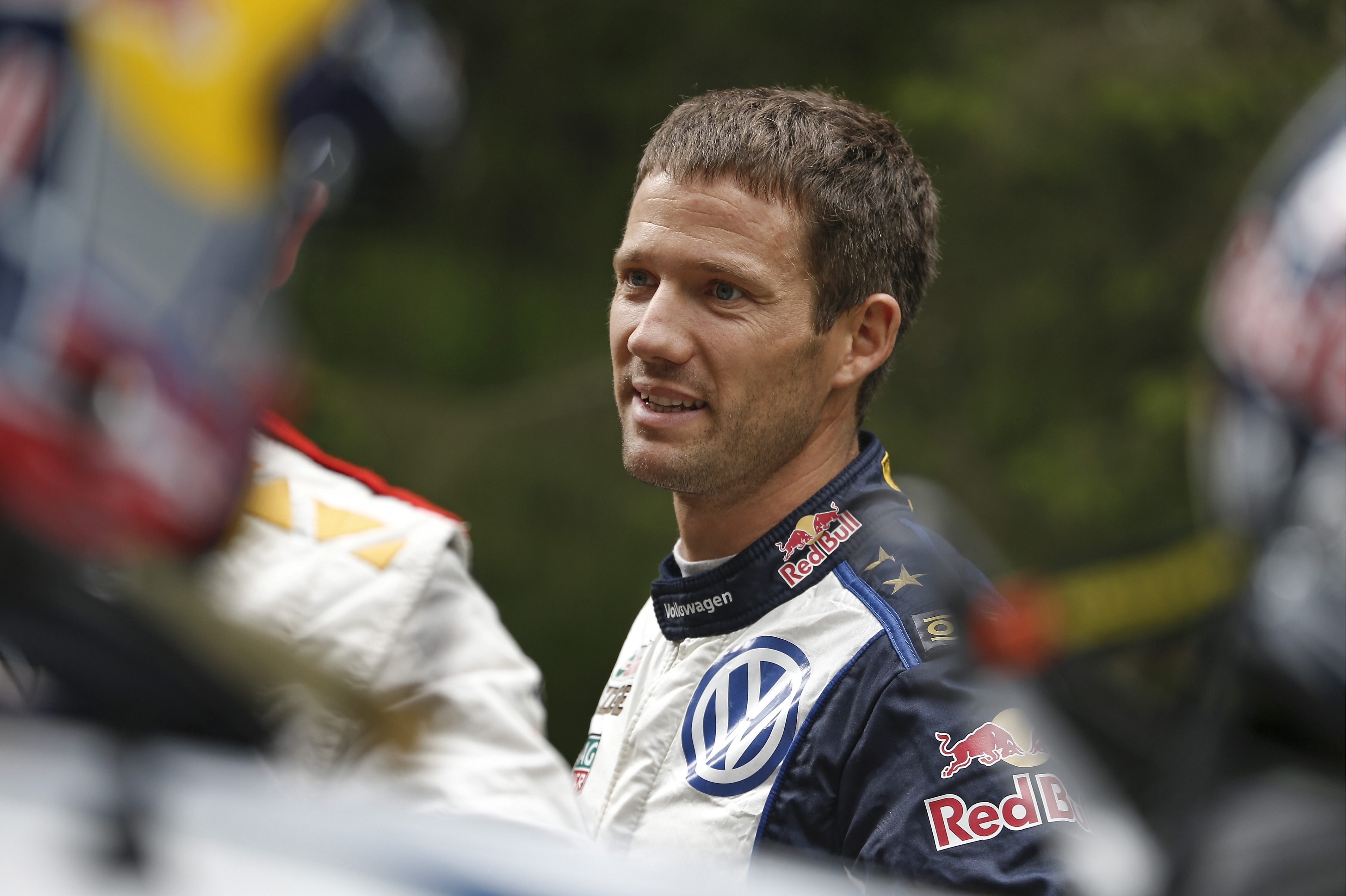 Sébastien Ogier at the 2015 Rally Finland. The eighth rally of the 2015 World Rally Championship.